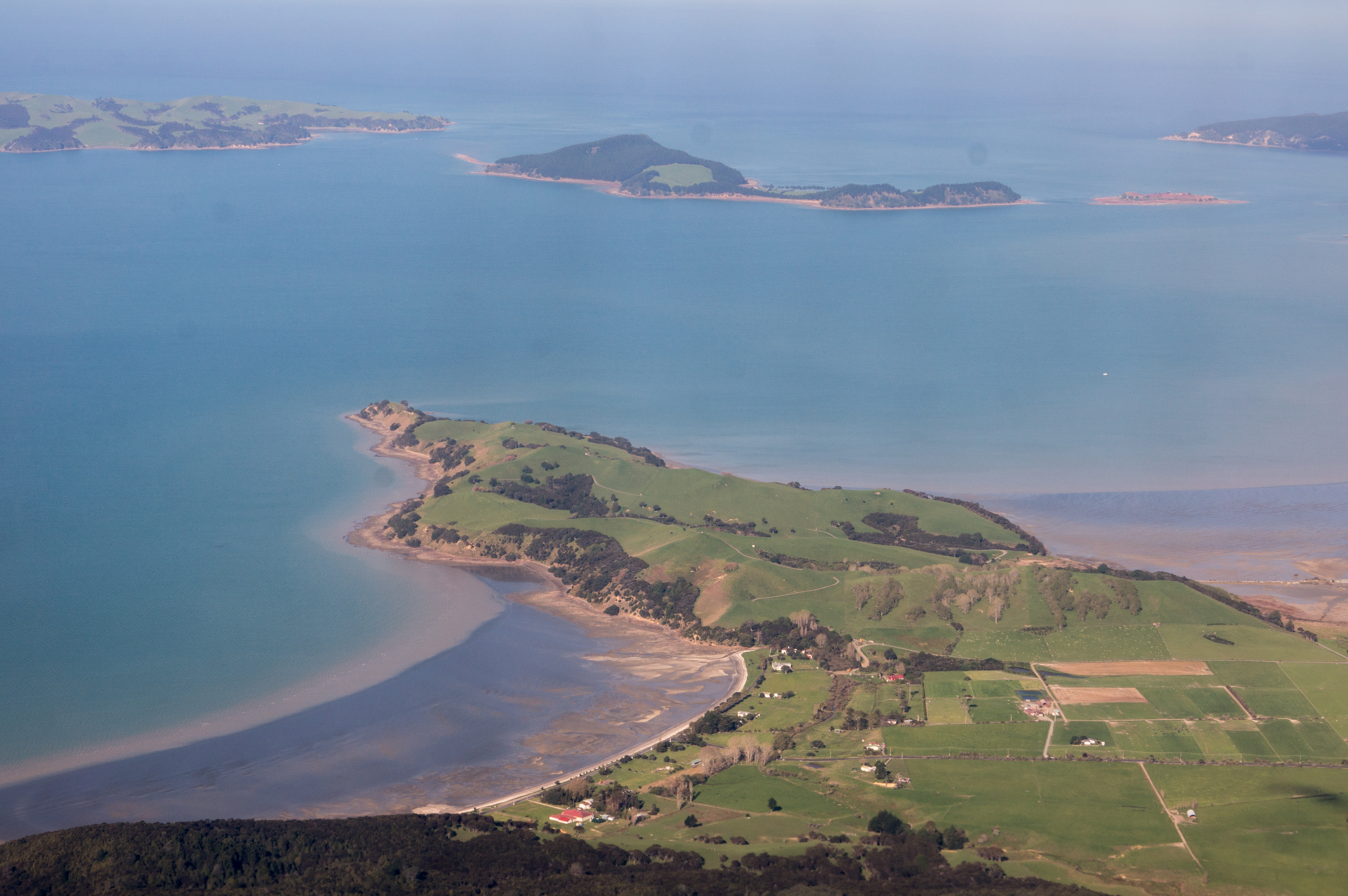 Low tide at Duders Beach. Regional park on the headland. Pakihi island off the coast.